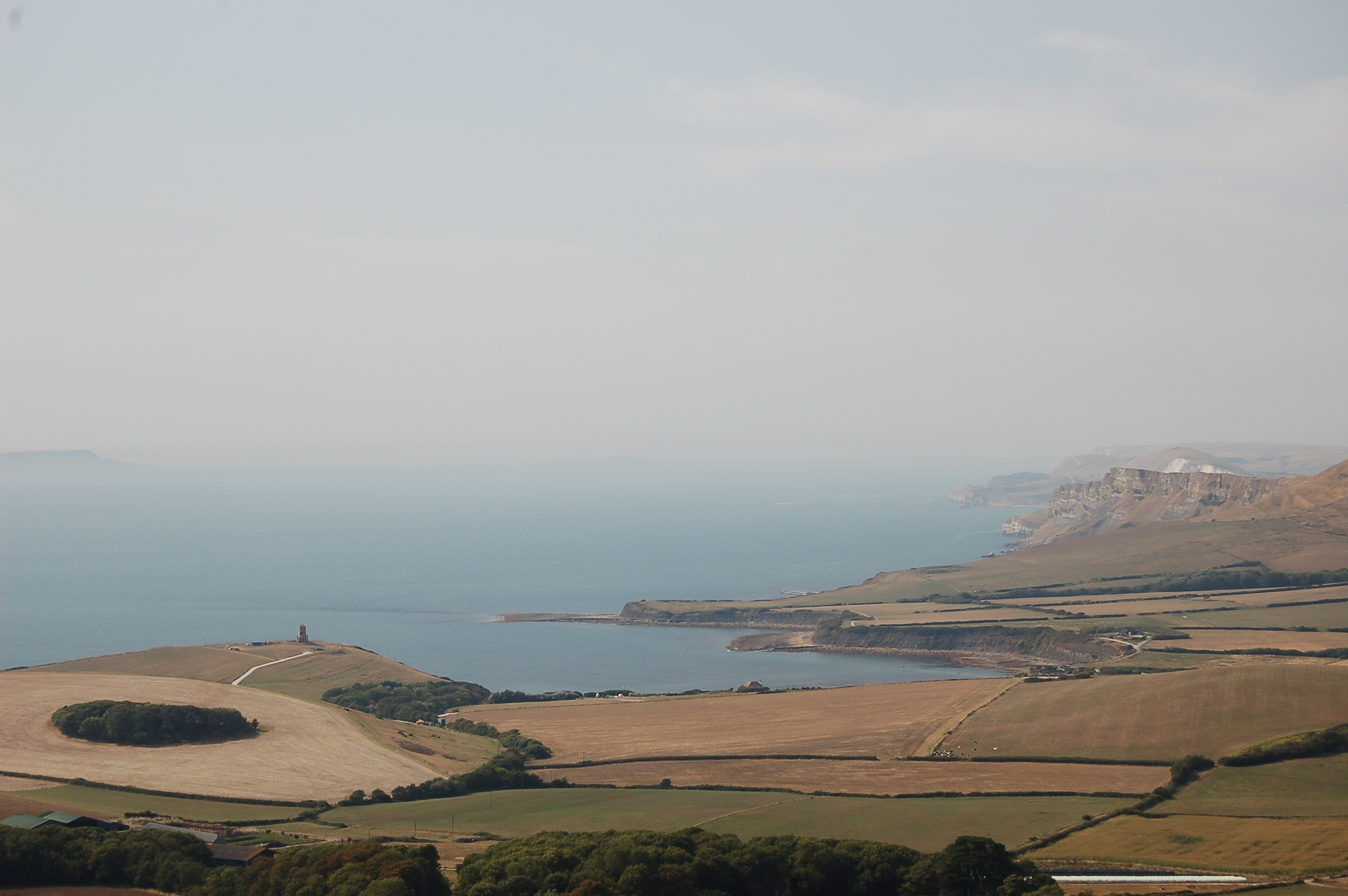 Kimmeridge, Jurassic Coast, Dorset.